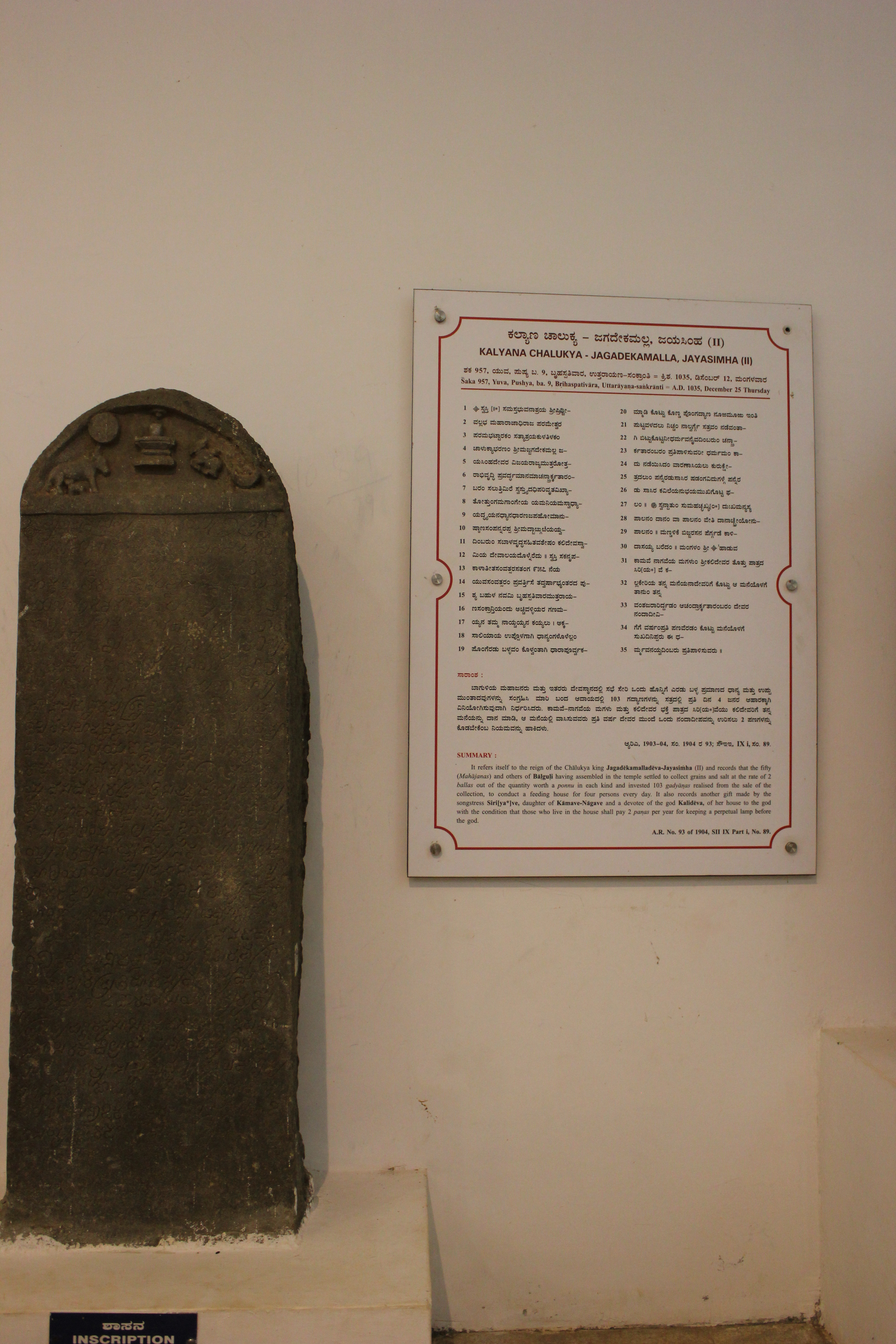 This photograph was taken by me at the ASI museum at Bagali (known as Balgali in ancient inscriptions), Davangere district, Karnataka state, India.